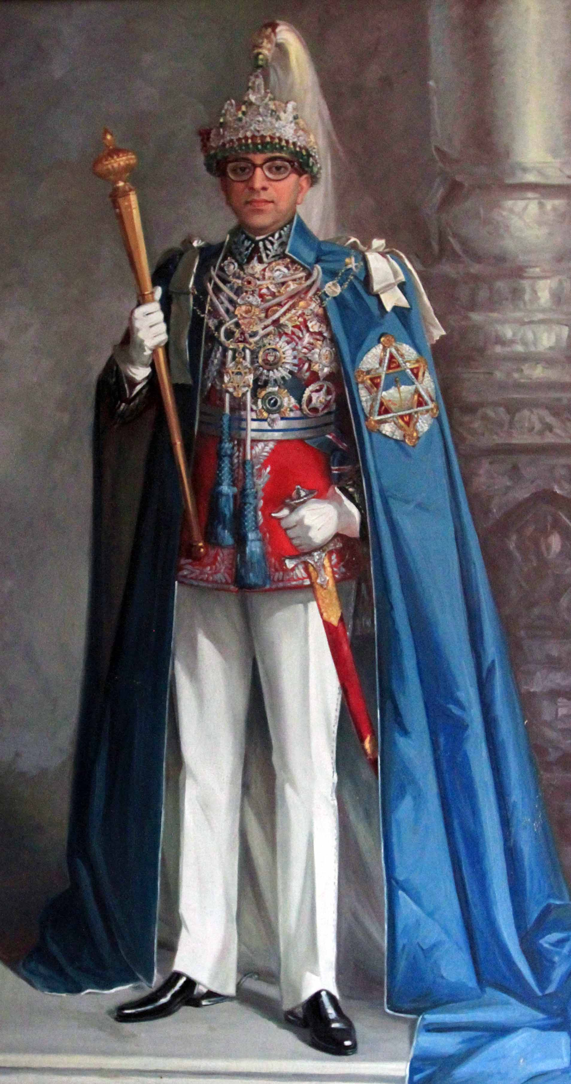 Portrait_of_Mahendra_in_Coronation, 1955